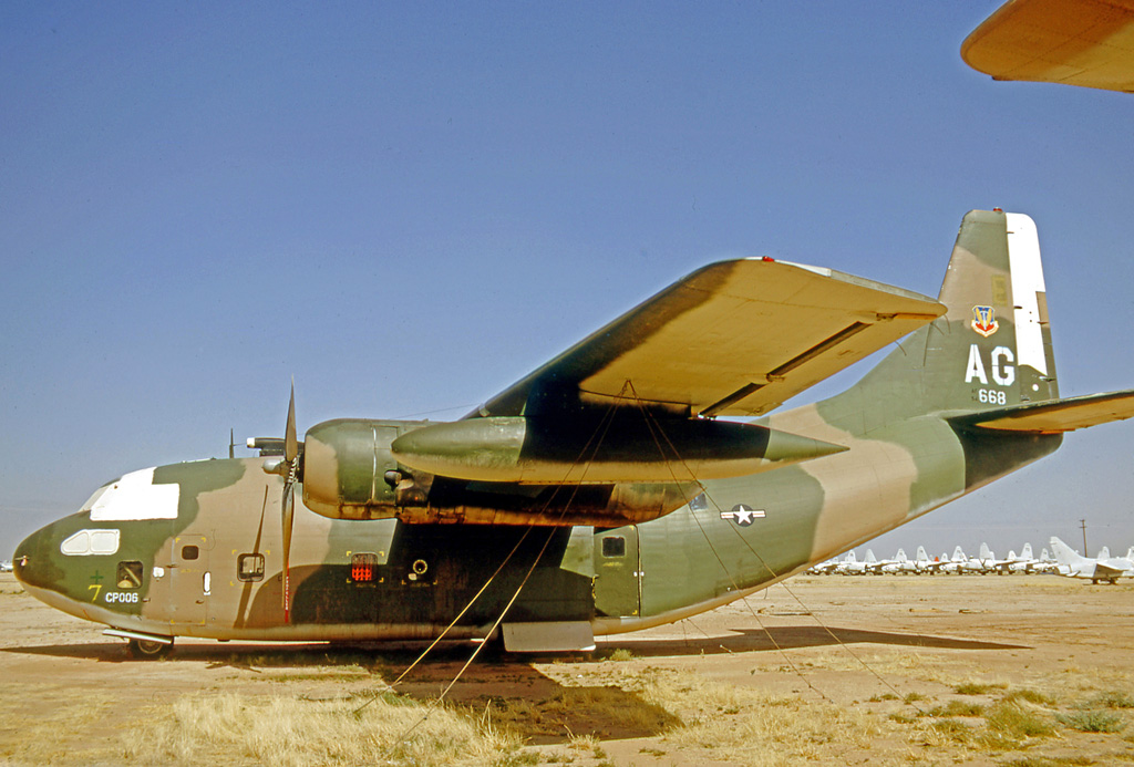 Fairchild C-123K Provider 54-668 of the 319 SOS 1 SOW at Davis Monthan AFB in 1971